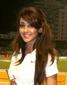 Aindrita Ray at the Chennai Rhinos v/s Karnataka Bulldozers match at CCL 3